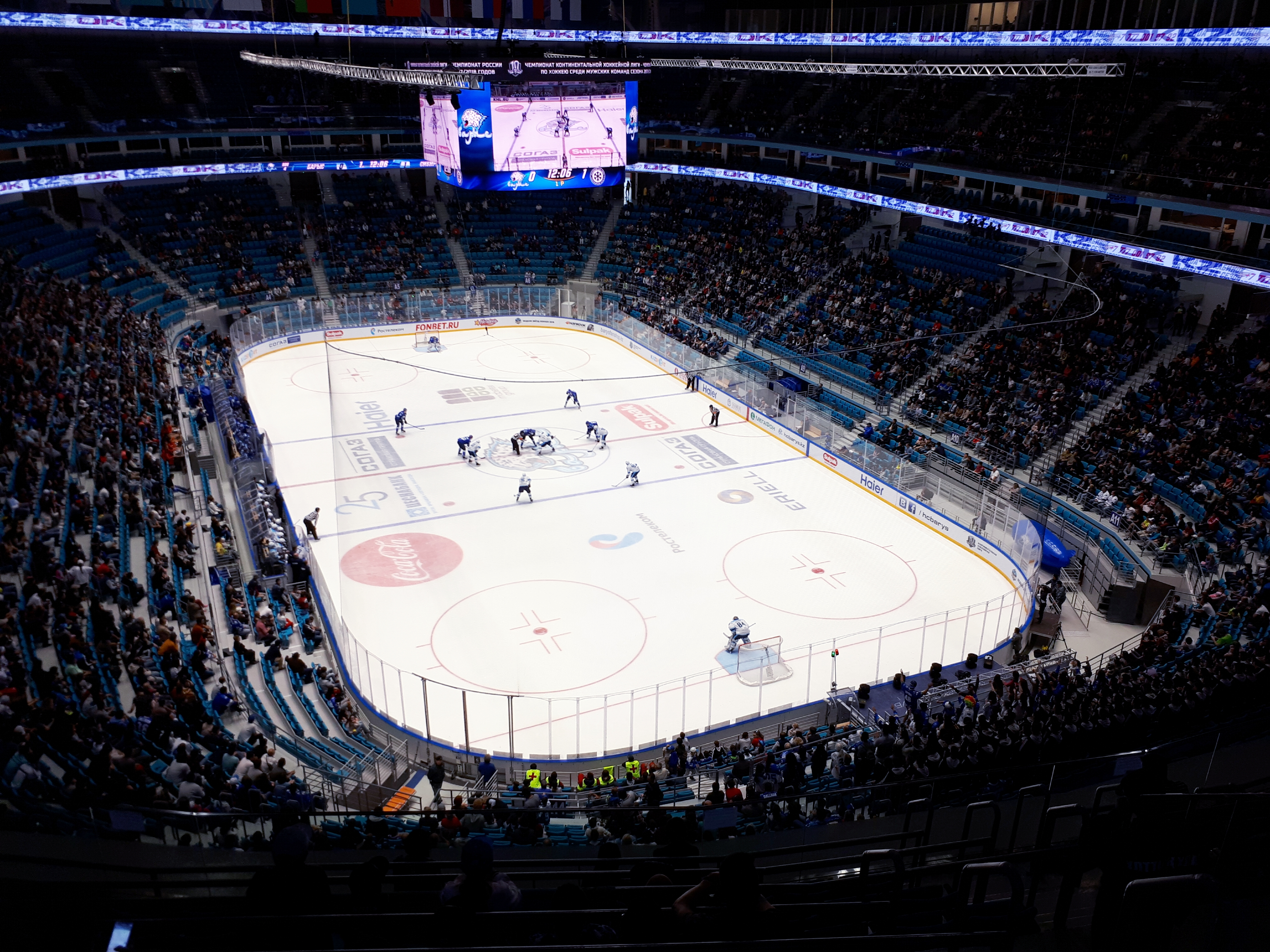 Barys Arena during Barys vs. Sibir KHL match.